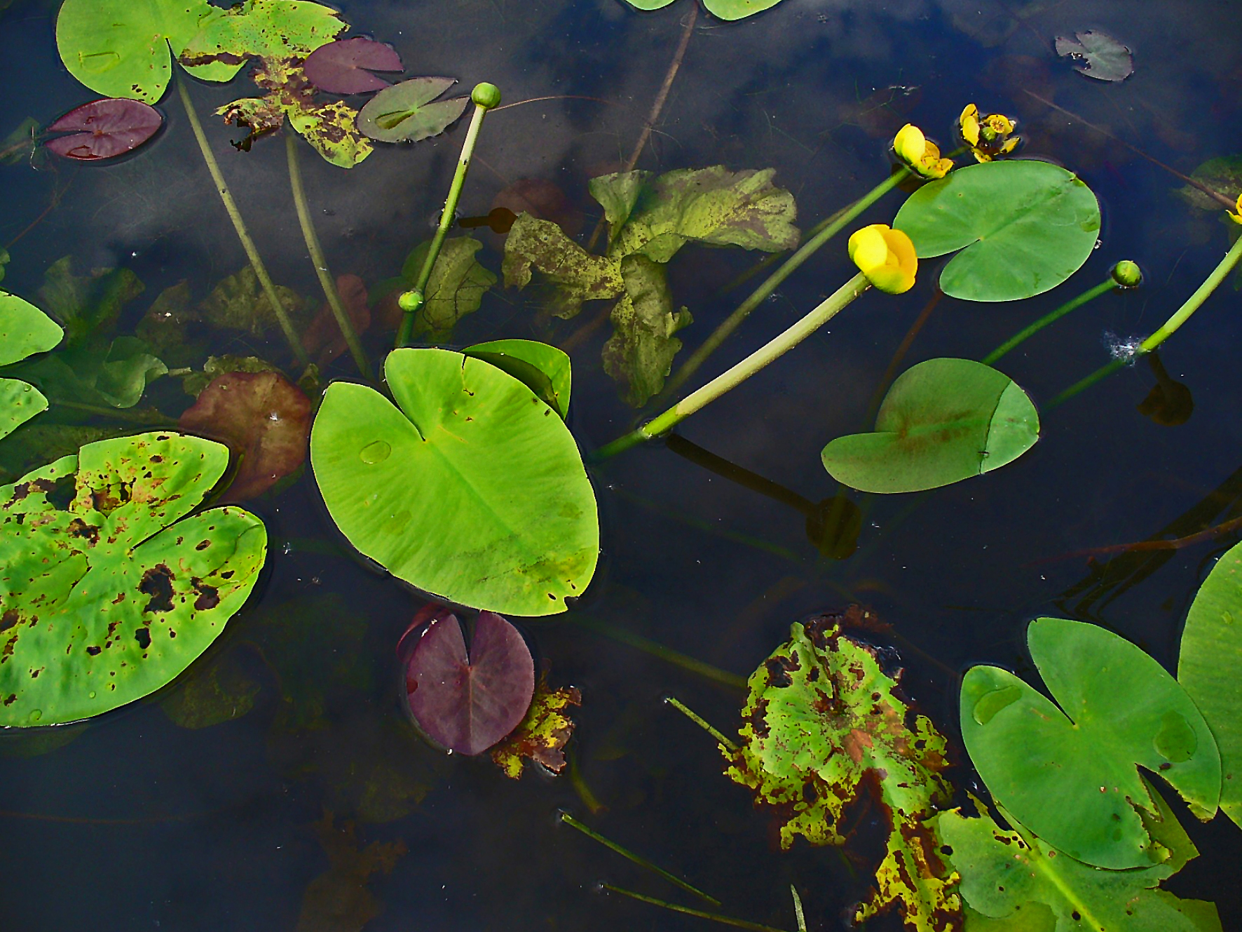 Nuphar lutea, Nymphaeaceae, Yellow Water-lily, habitus.